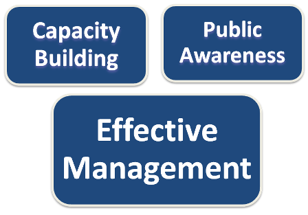 People 2013.10.27